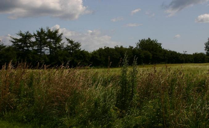 Windbreak in Jutland.